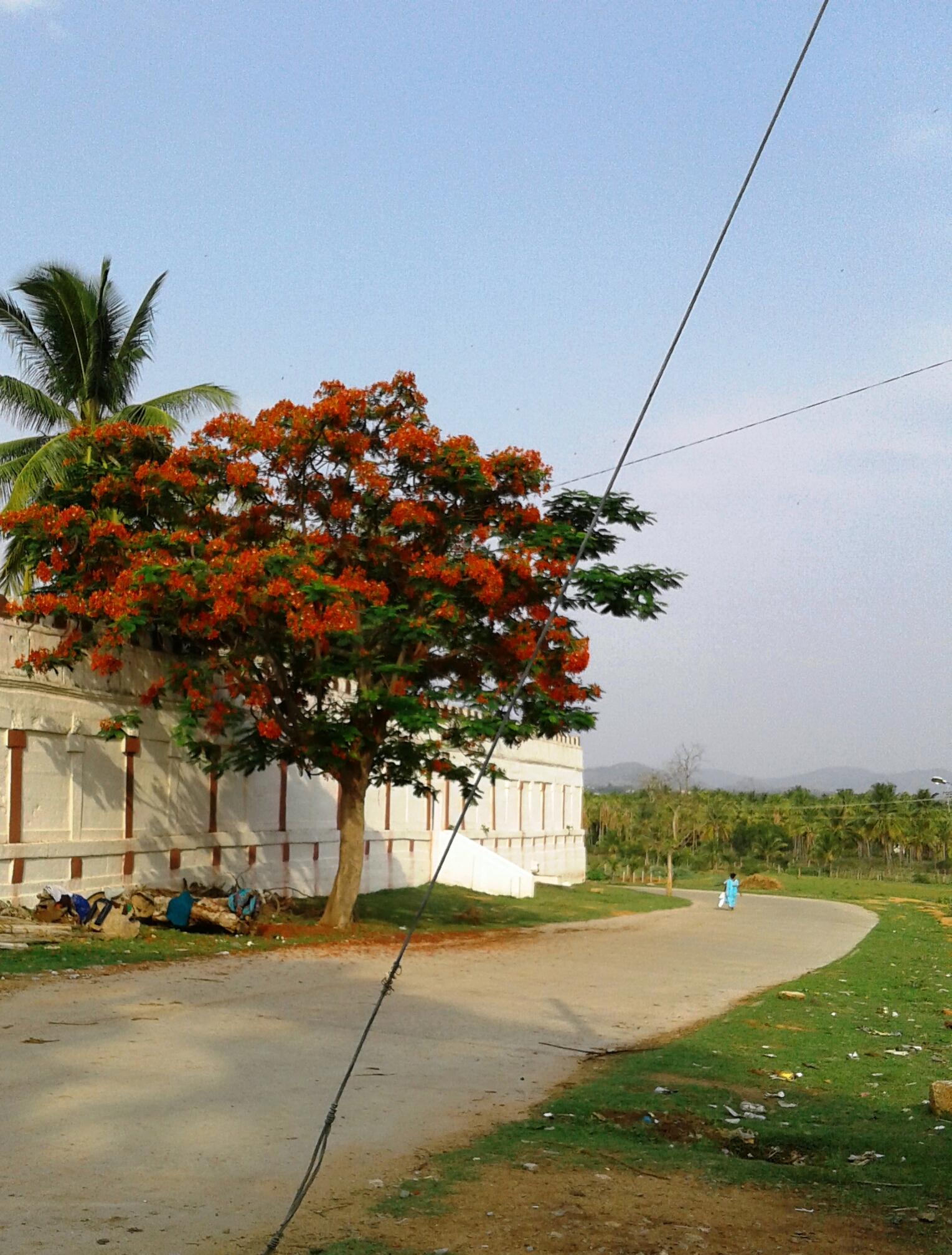 Malekal Tirupathi Hill Temple, Arsikere town, Hassan district, Karnataka state, India.